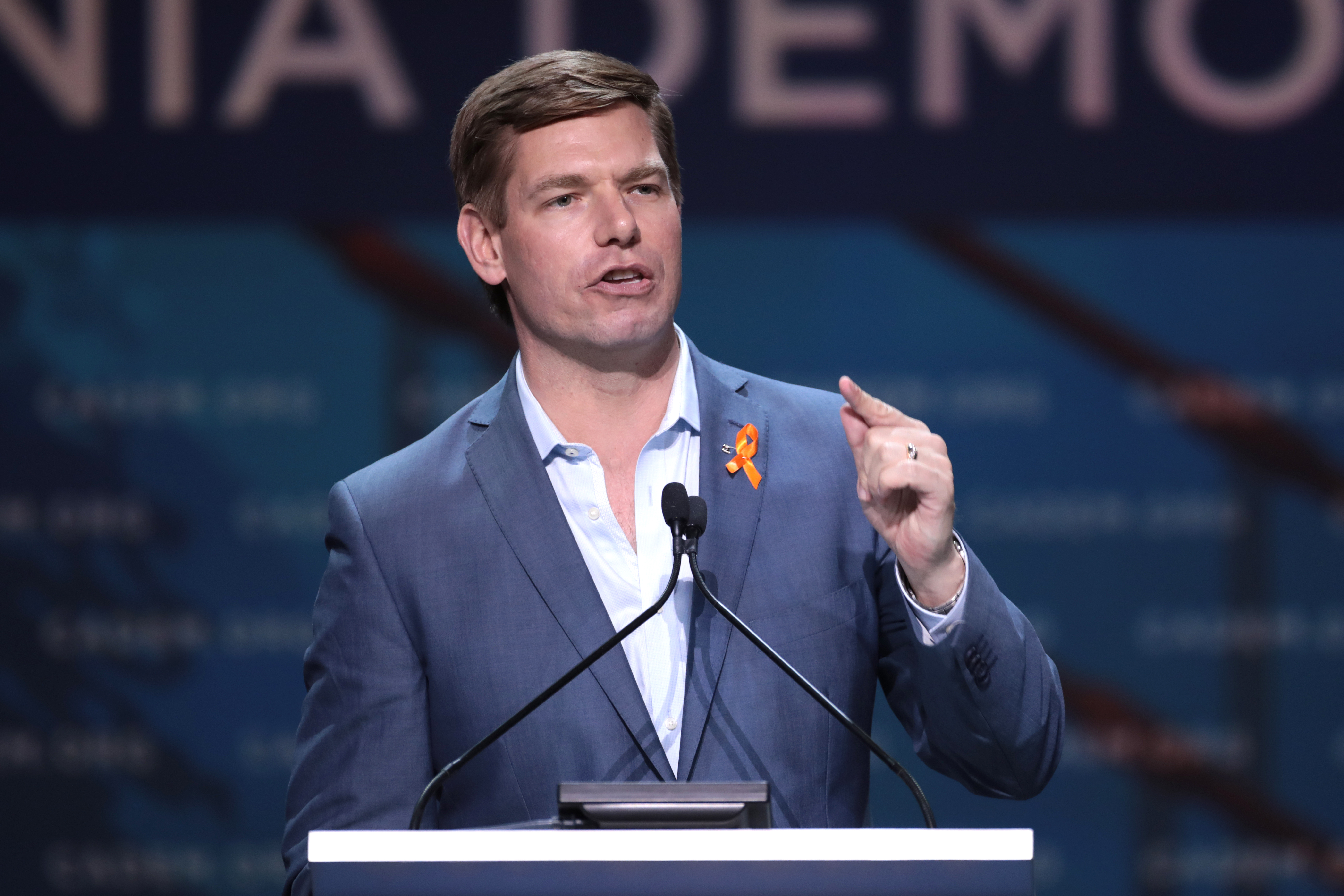 U.S. Congressman Eric Swalwell speaking with attendees at the 2019 California Democratic Party State Convention at the George R. Moscone Convention Center in San Francisco, California.